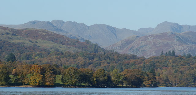 View Towards the Cumbrian Mountains Crinkle Crags can be seen towards the left/centre of picture. Bow Fell (902m) is the peak on the extreme right of picture. Just to the left of Bow Fell, beyond the ridge between Bow Fell and Crinkle Crags, is Scafell Pike (977m), the highest mountain in England.